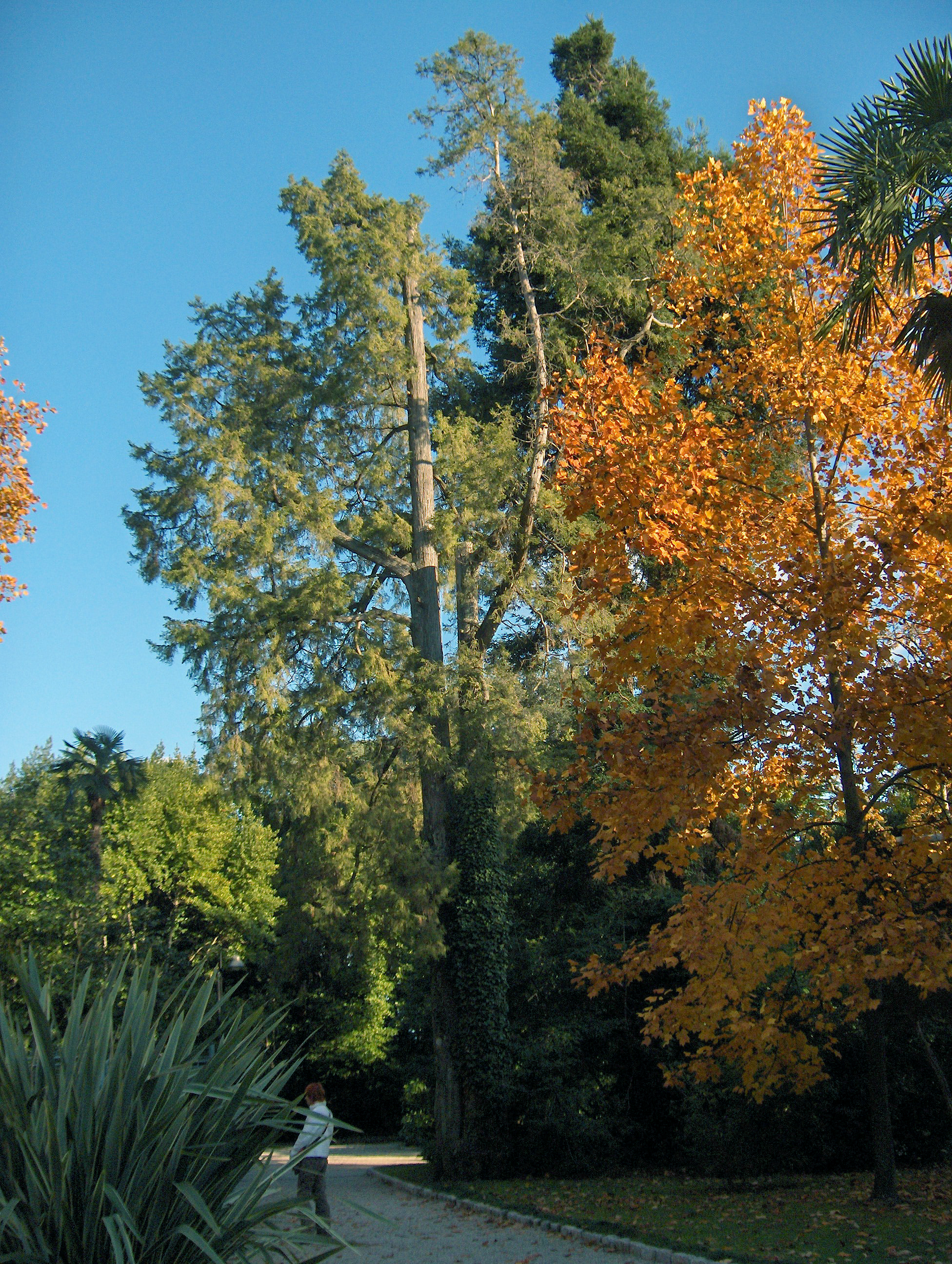 Himalayan cypress (Cupressus torulosa) (on the left); botanical park, Opatija, Croatia